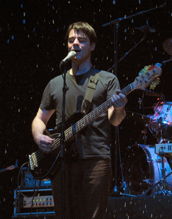 Tim Vesely performing with the Rheostatics at Massey Hall in Toronto, Ontario, Canada